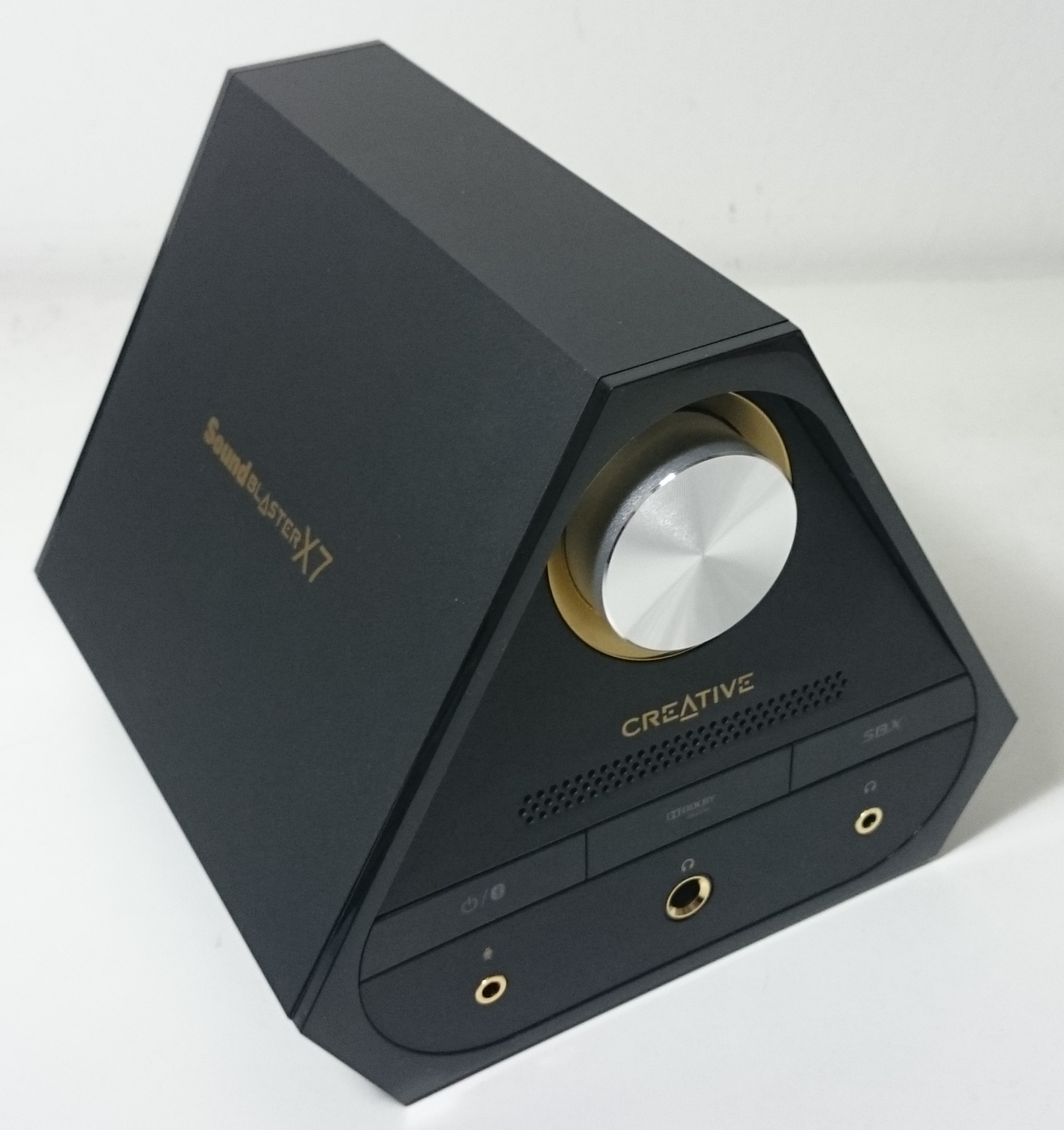 Front view of the Sound Blaster X7.